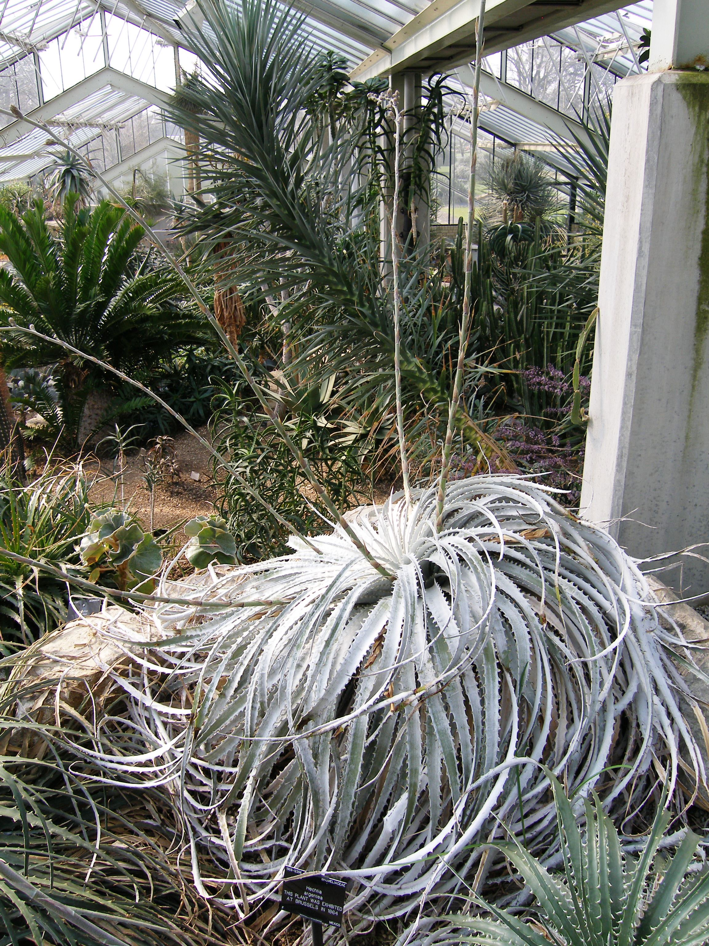 Specimen in cultivation at the Royal Botanic Gardens, Kew, United Kingdom.